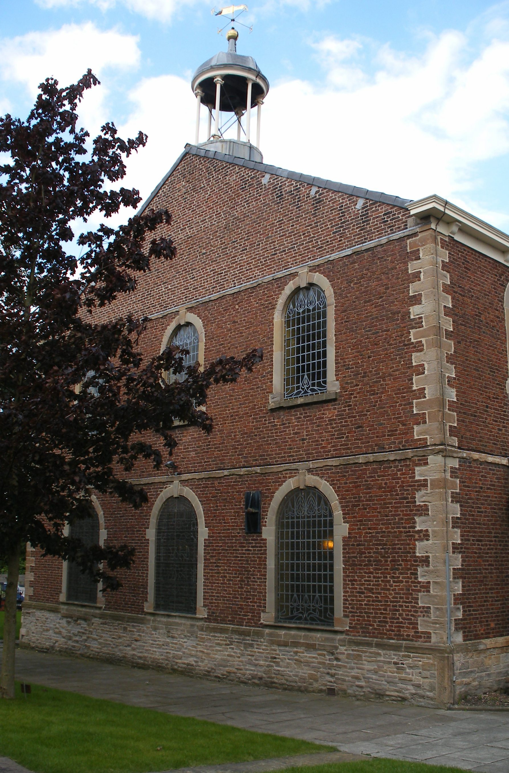 Side view of Chowbent Chapel, Atherton, Greater Manchester.